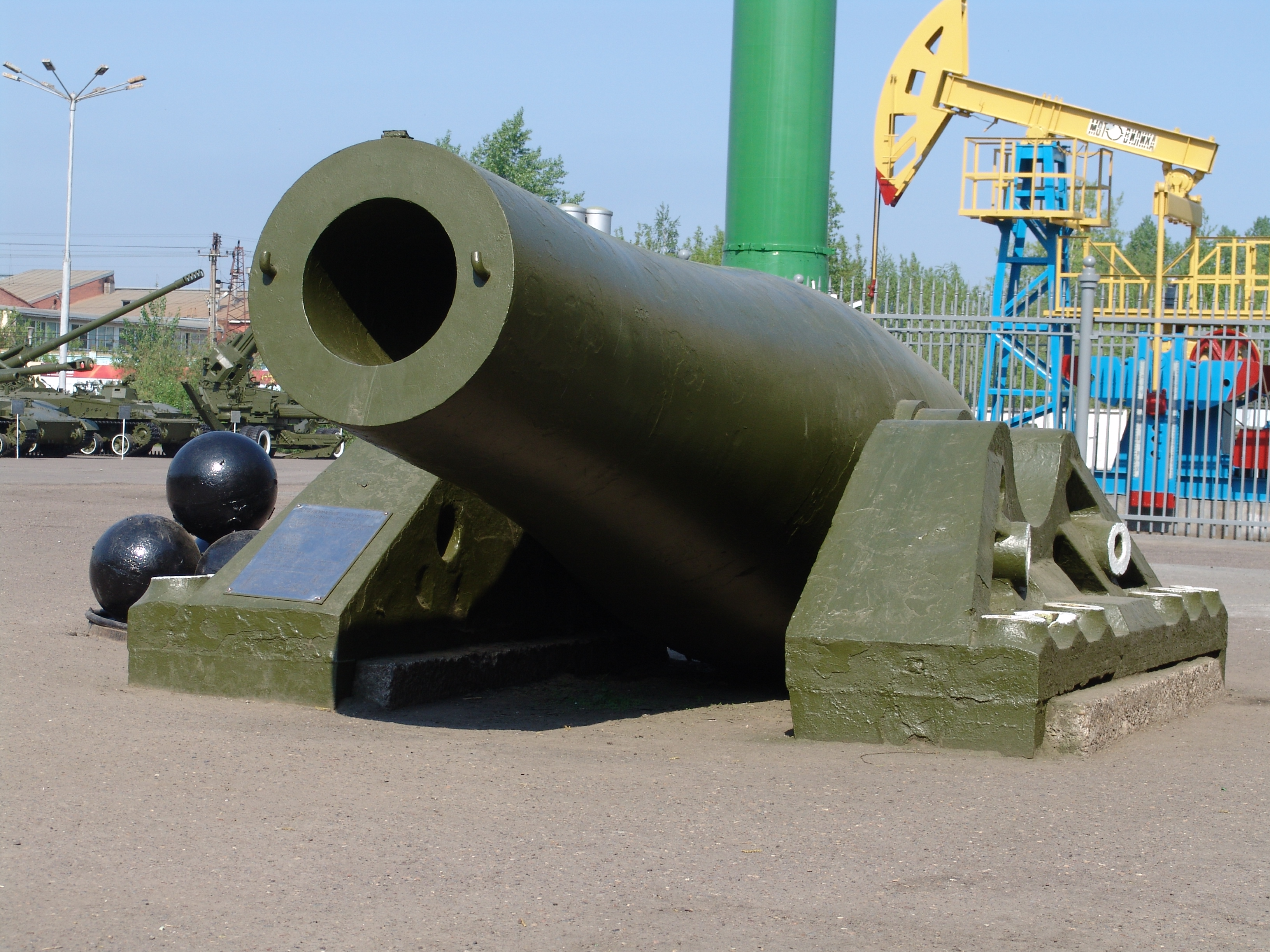 20-inch ship's cast-iron cannon 20 дюймовая корабельная чугунная пушка